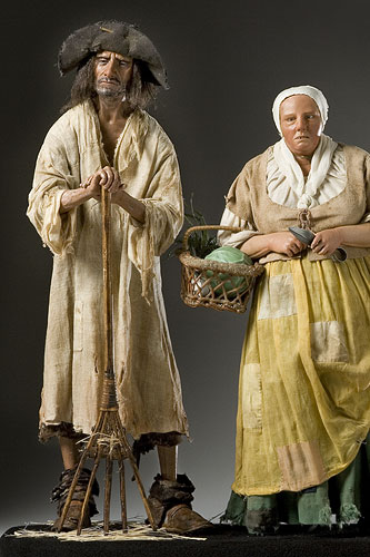 Historical Mixed Media Figures of a French peasant family circa 18th century produced by artist/historian George S. Stuart and photographed by Peter d'Aprix. This image, from the George S. Stuart Gallery of Historical Figures® archive ( is provided for all uses with appropriate attribution. Any derivatives must be shared in the same manner. Contributor mharrsch is webmaster for the gallery site.